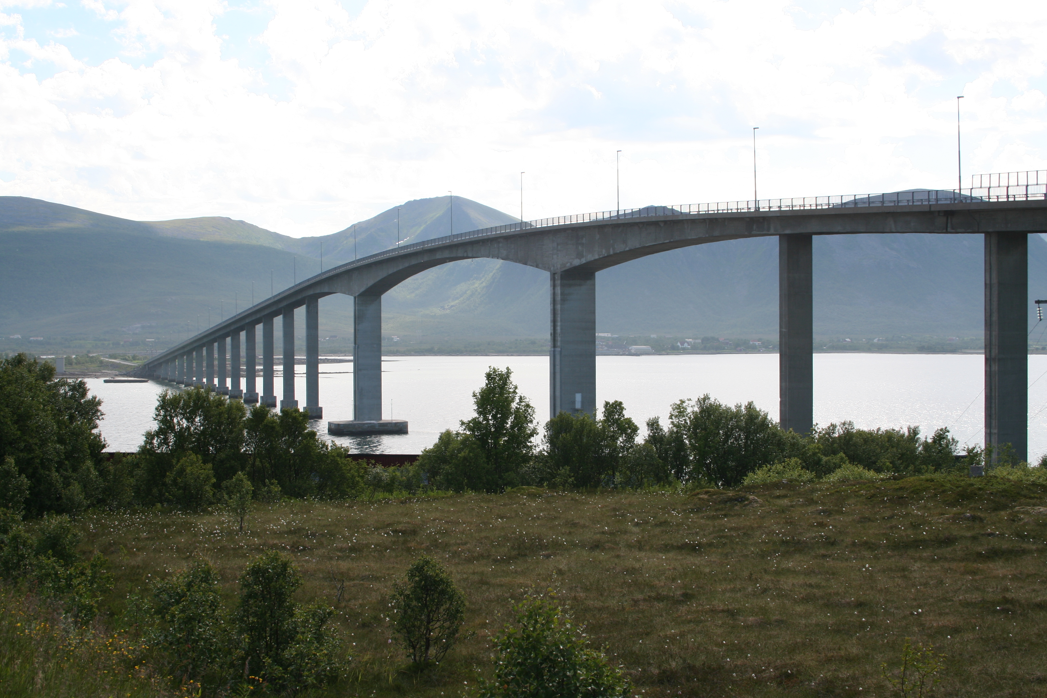 Andøy Bridge in Norway, with Hinnøya island in the background. The photo was taken by me